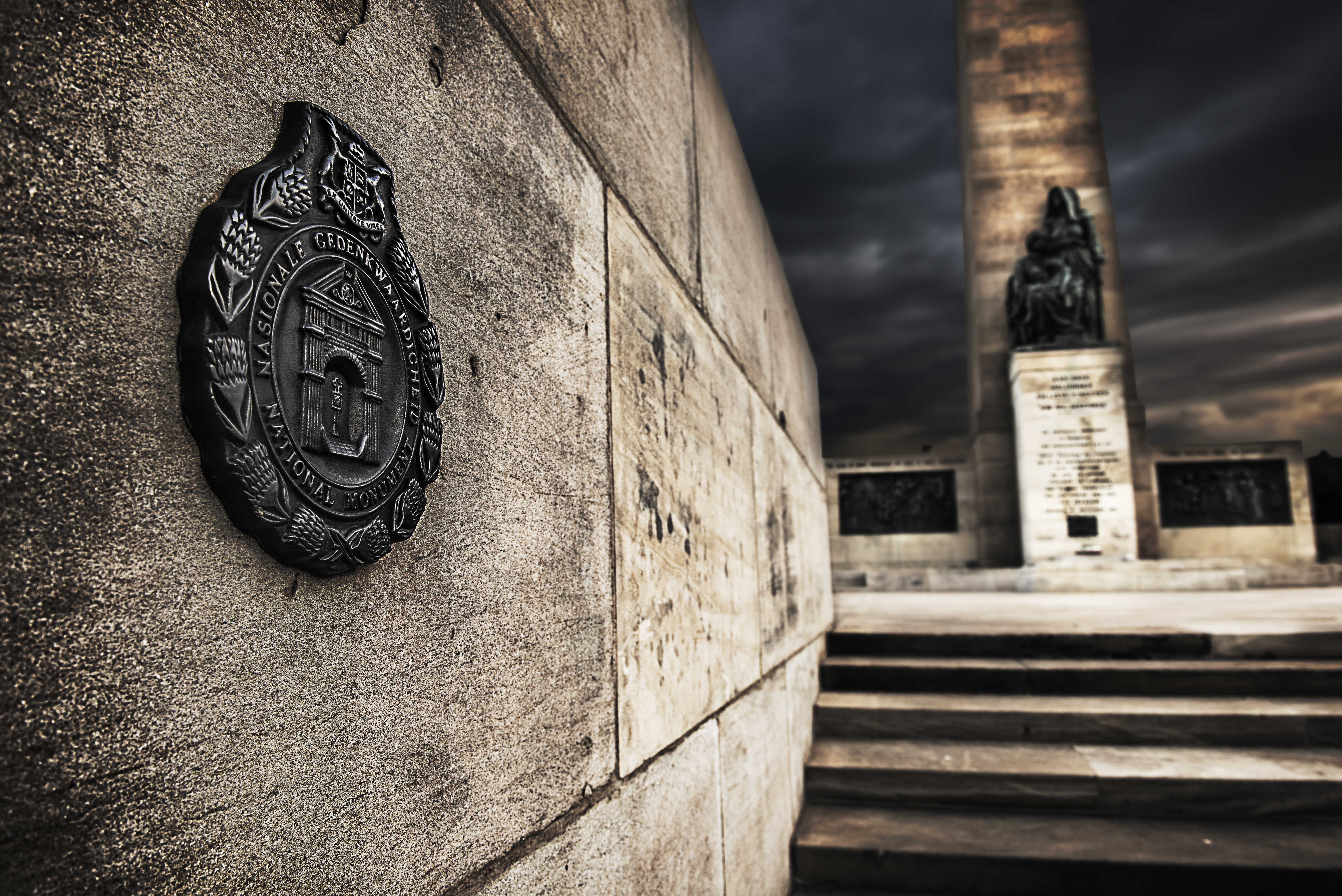 Women's Memorial Bloemfontein 1913 This media shows a South African Protected Site with SAHRA file reference 9/2/302/0045.